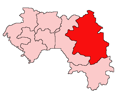 Map of Guinea showing Kankan Region. Created using the GIMP